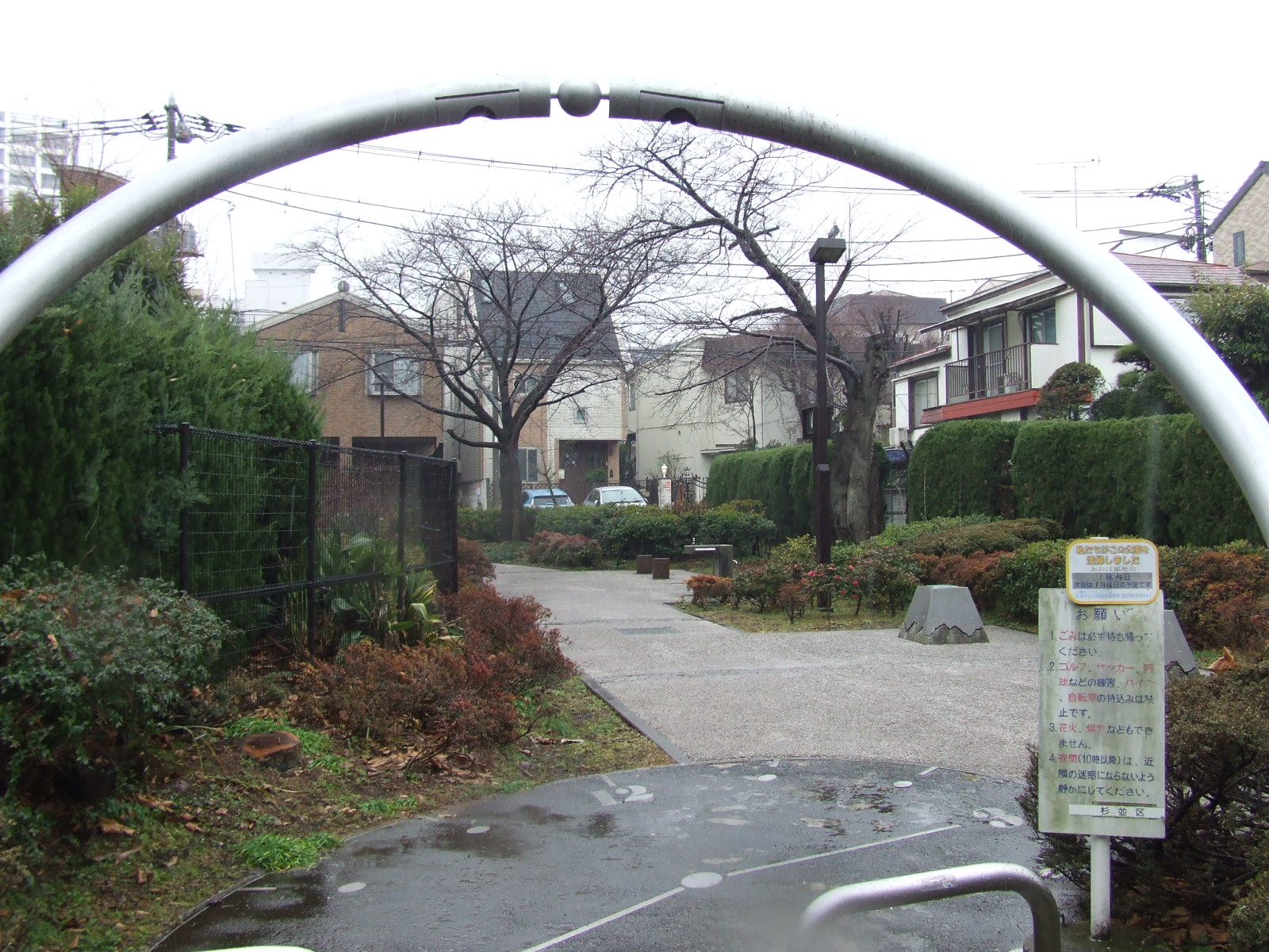 amanuma moegi park entrance